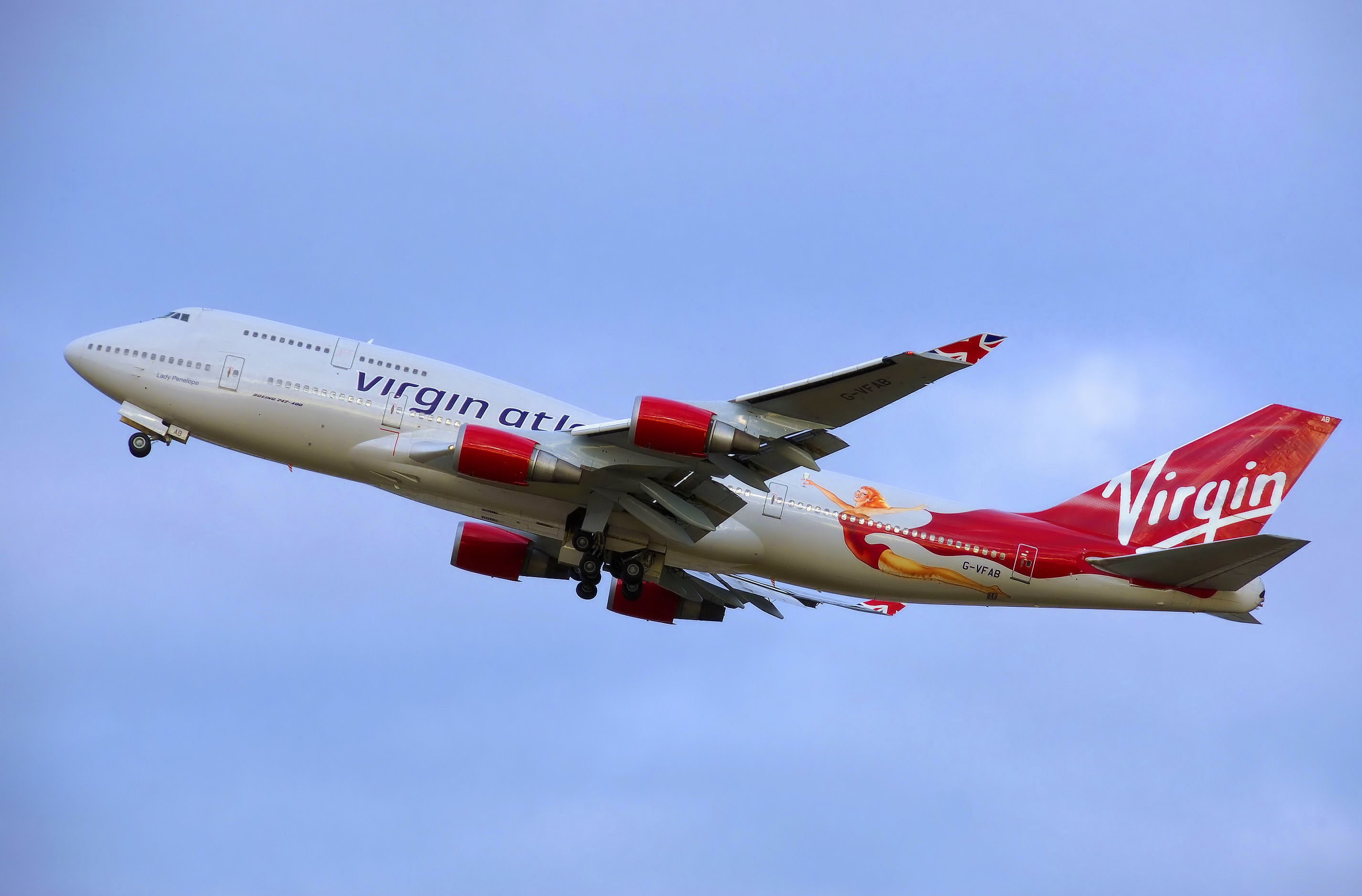 Virgin Atlantic Boeing 747-400 (G-VFAB) “Lady Penelope” taking off from London Heathrow Airport, England.